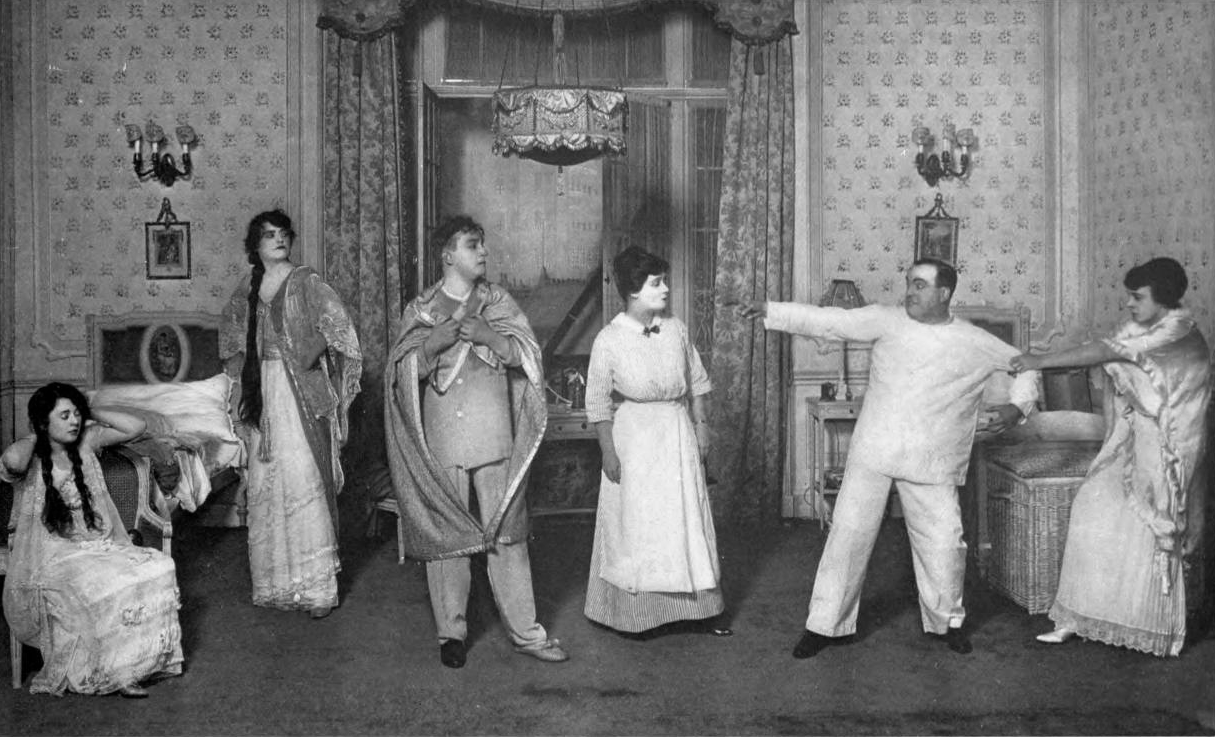 Photograph from Act 2 of 1914 Broadway play "Twin Beds" appearing in The Theatre. Scene includes actors Madge Kennedy, Ray Cox, John Westley, Georgie Lawrence, and John Cumberland.